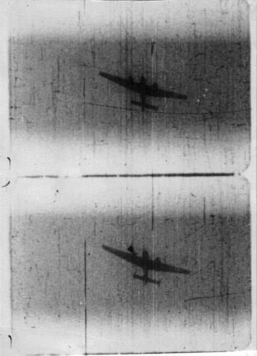 This artistic work created by the United Kingdom Government is in the public domain. This is because it is one of the following: It is a photograph created by the United Kingdom Government and taken prior to 1 June 1957; or It was commercially published prior to 1967; or It is an artistic work other than a photograph or engraving (e.g. a painting) which was created by the United Kingdom Government prior to 1967. HMSO has declared that the expiry of Crown Copyrights applies worldwide (ref: HMSO Email Reply) More information. See also Copyright and Crown copyright artistic works.